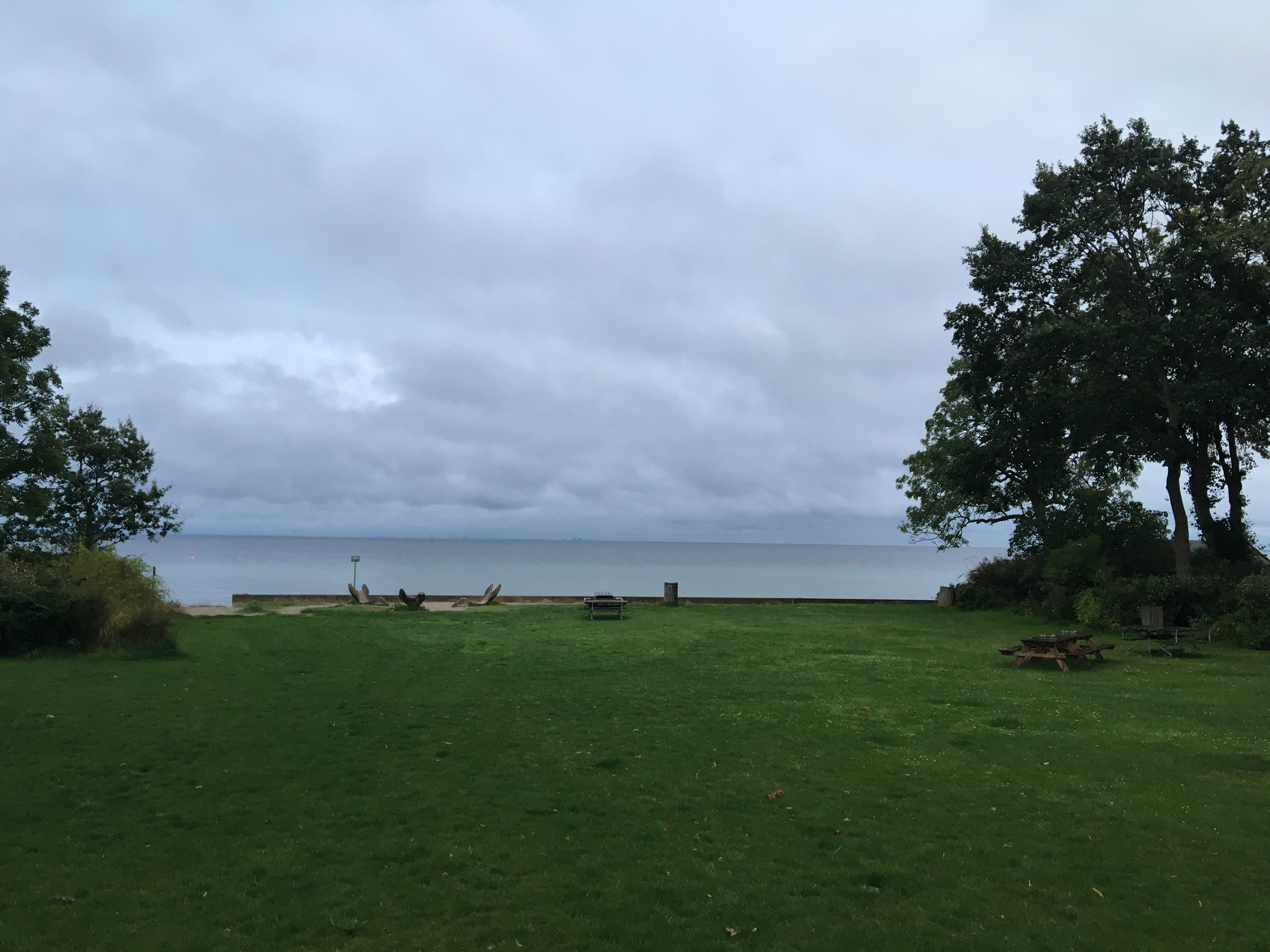 Bombegrunden, Taarbæk Denmark in 2019